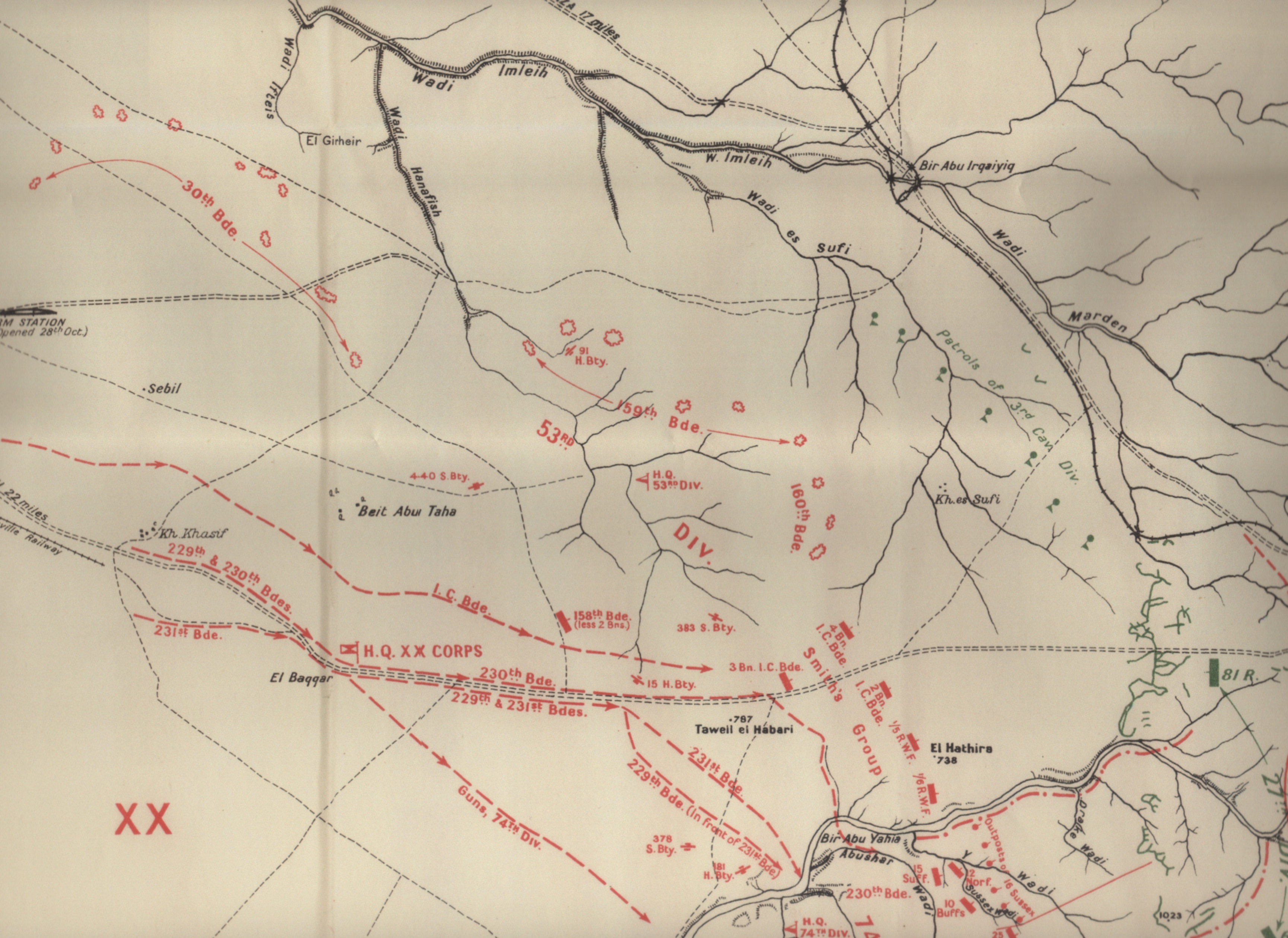 Detail of Map 5 showing infantry approach marches 30/31 October 1917